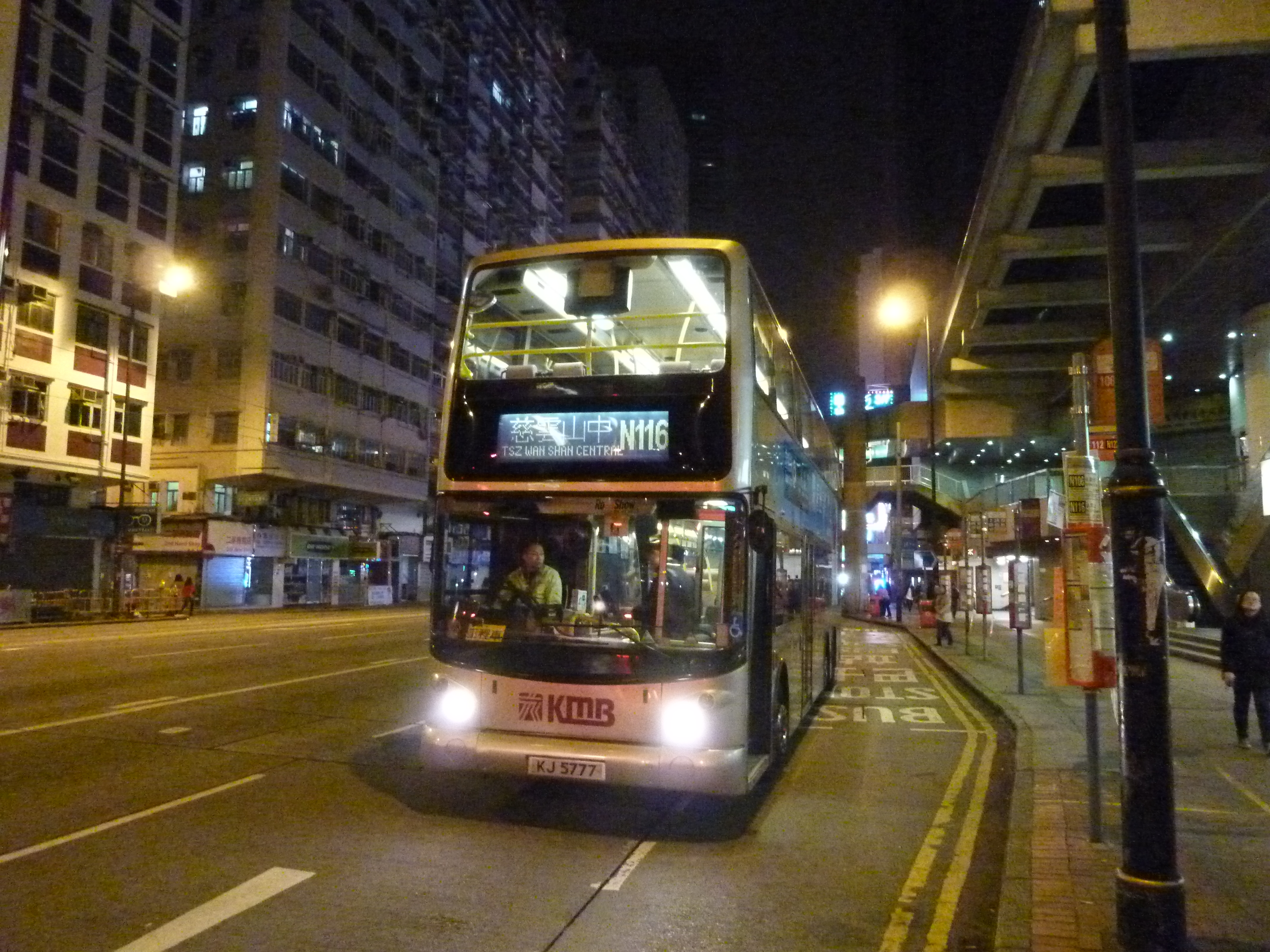 KMB Route N116 (King's Road, Fortress Hill)中文（香港）: 九巴N116線 (英皇道)